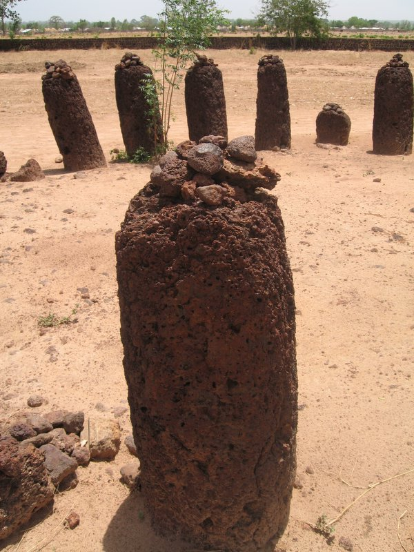 Wassu Stone Cirles